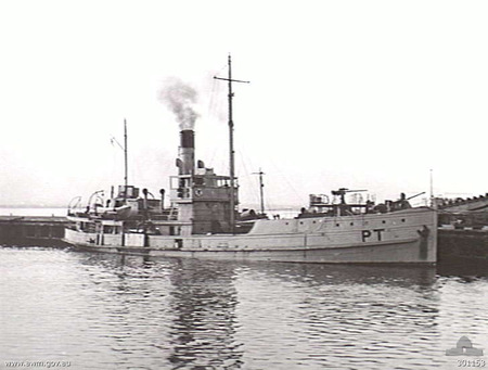 Willstown, Vic. 1940. Starboard bow view of the Auxilary minesweeper HMAS Paterson (PT).